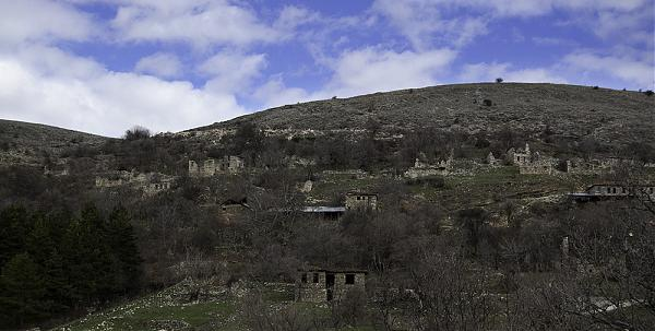 The abandoned village of Palaio Kostarazi (Old Kostarazi), Kastoria prefecture, Western Macedonia, Greeve